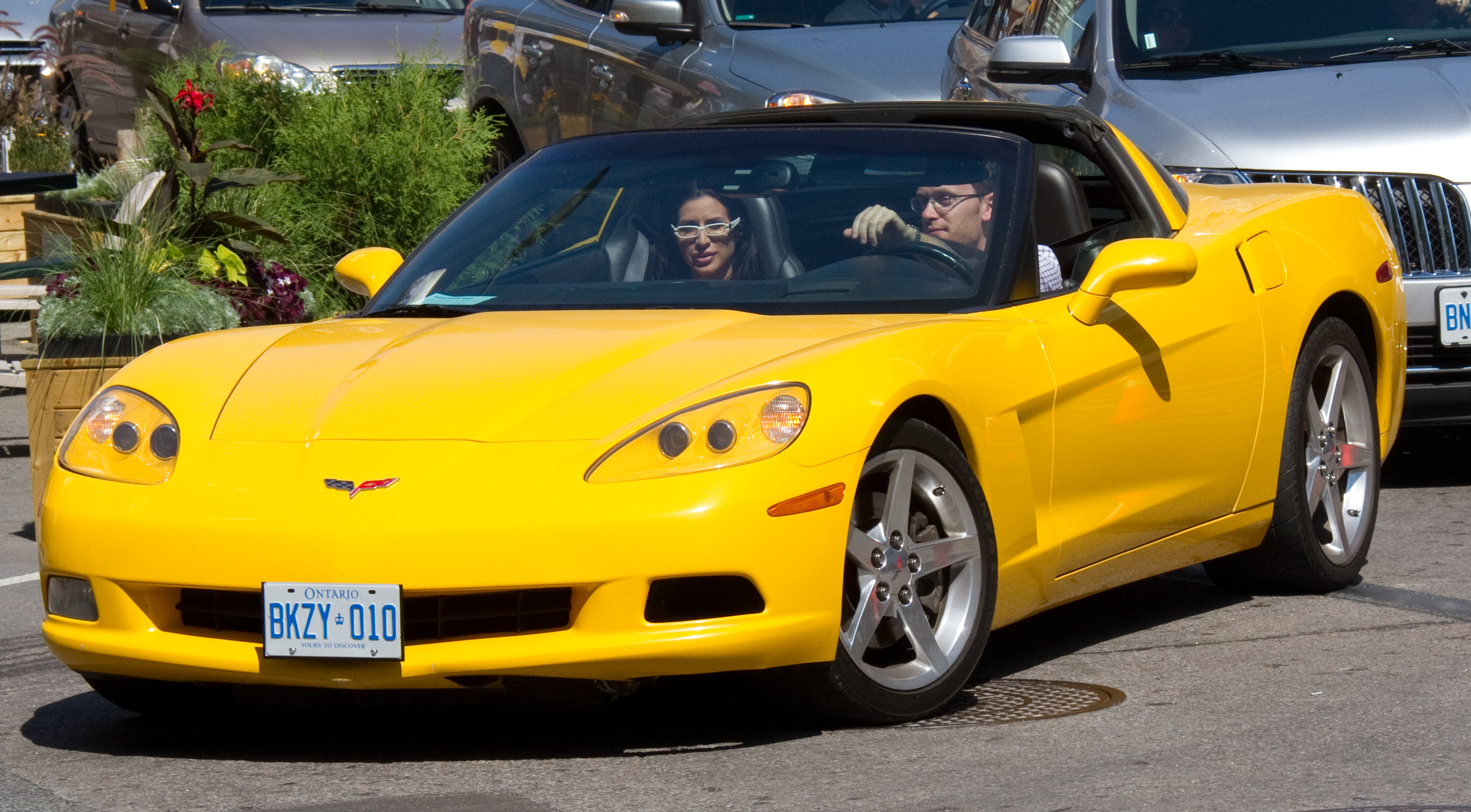 Yellow Corvette